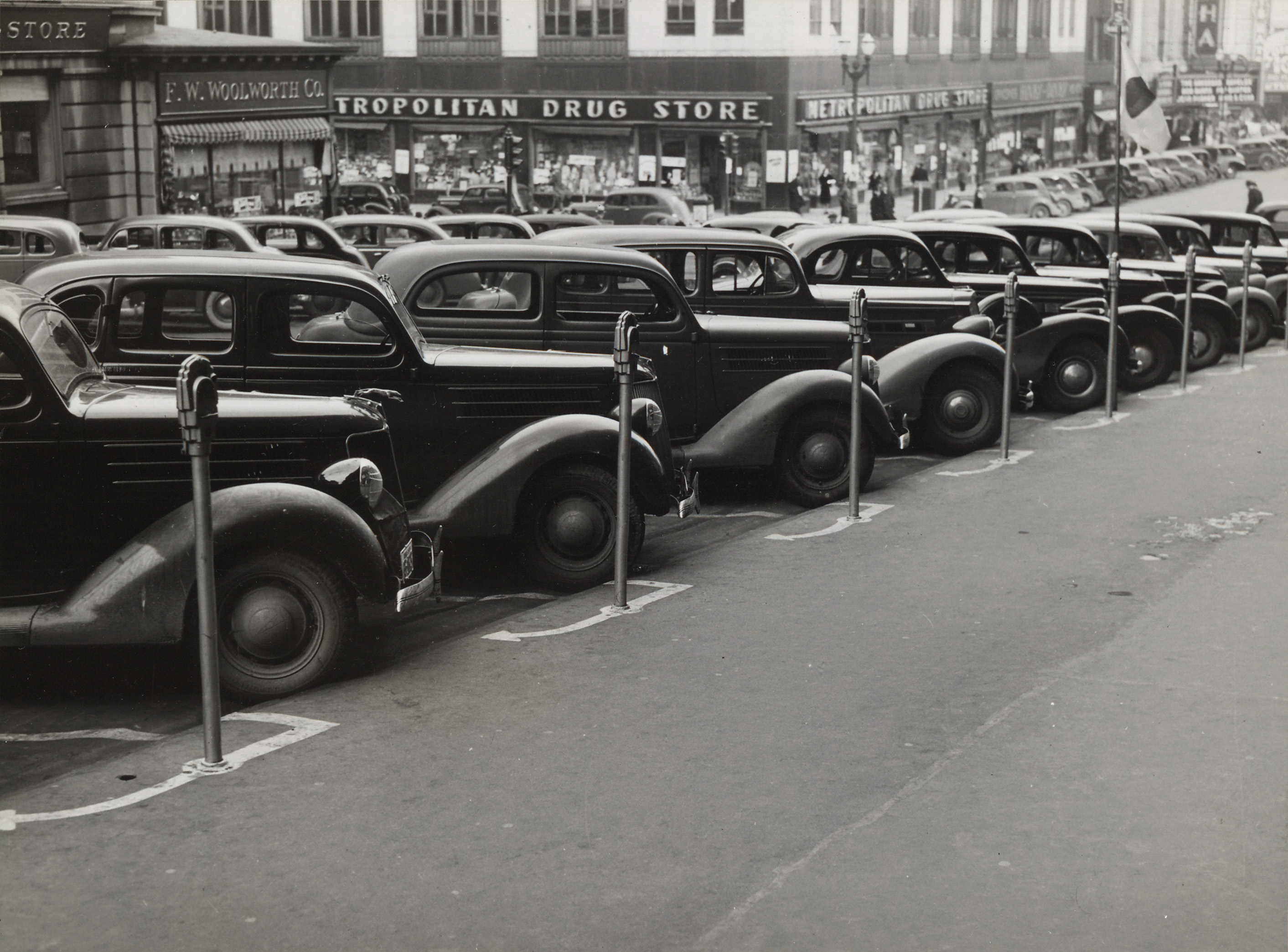 Cars parked diagonally along parking meters, Omaha, Nebraska, 1938.